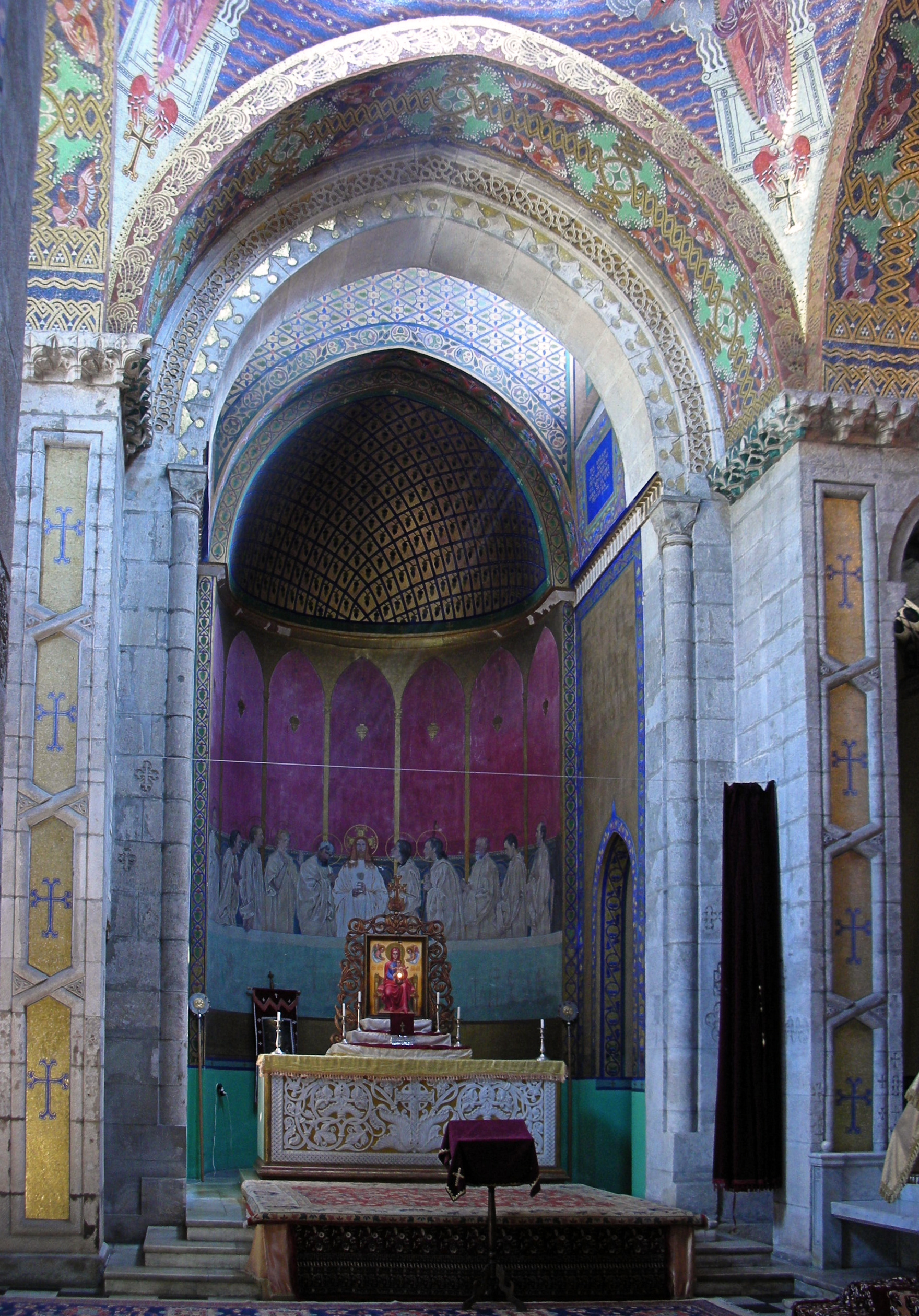 Armenian Cathedral in Lviv.